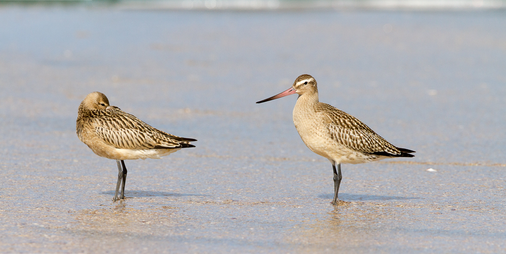 Limosa lapponica lapponica